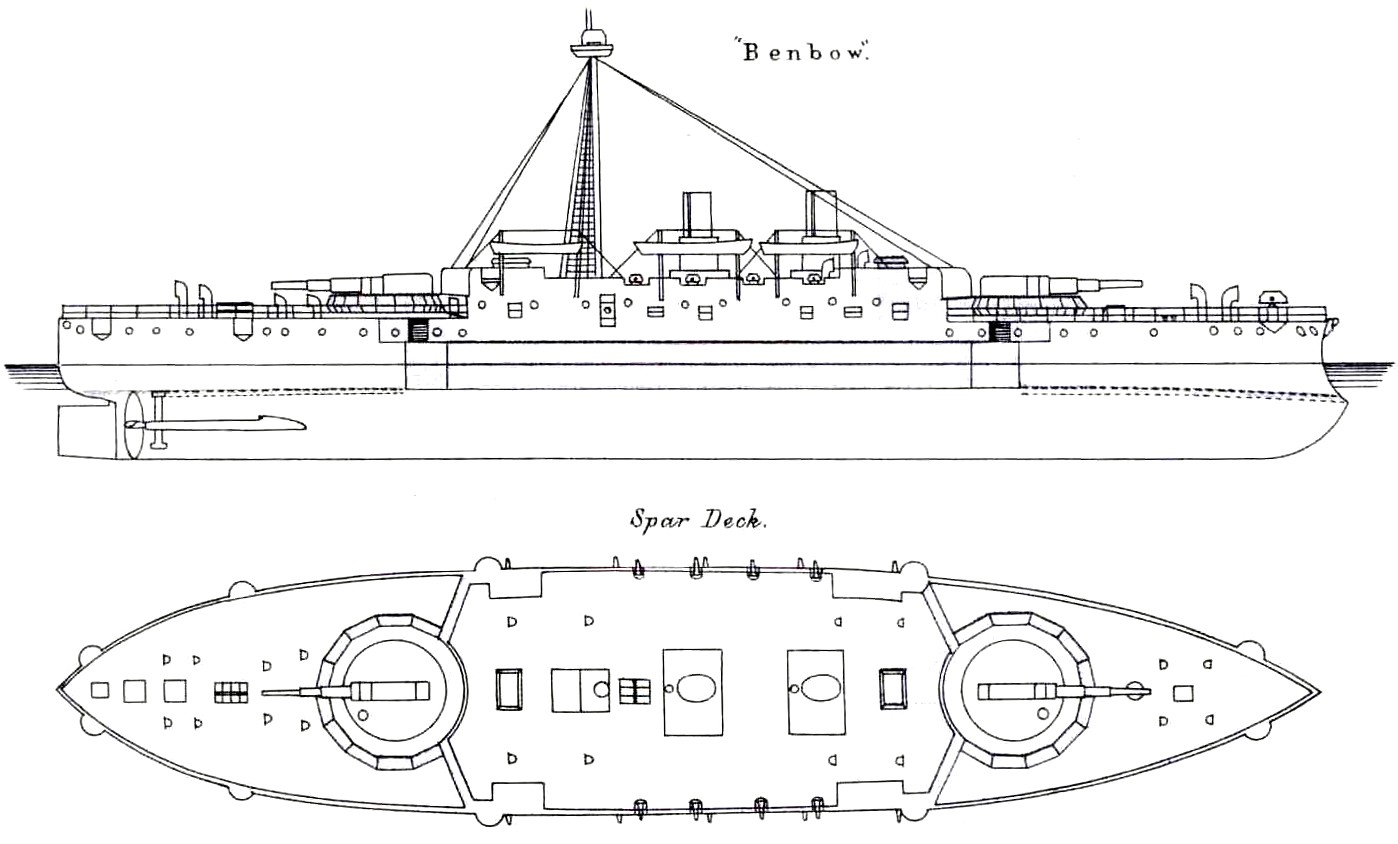 Diagrams showing starboard elevation and deck plan of British Battleship HMS Benbow. Downloaded from